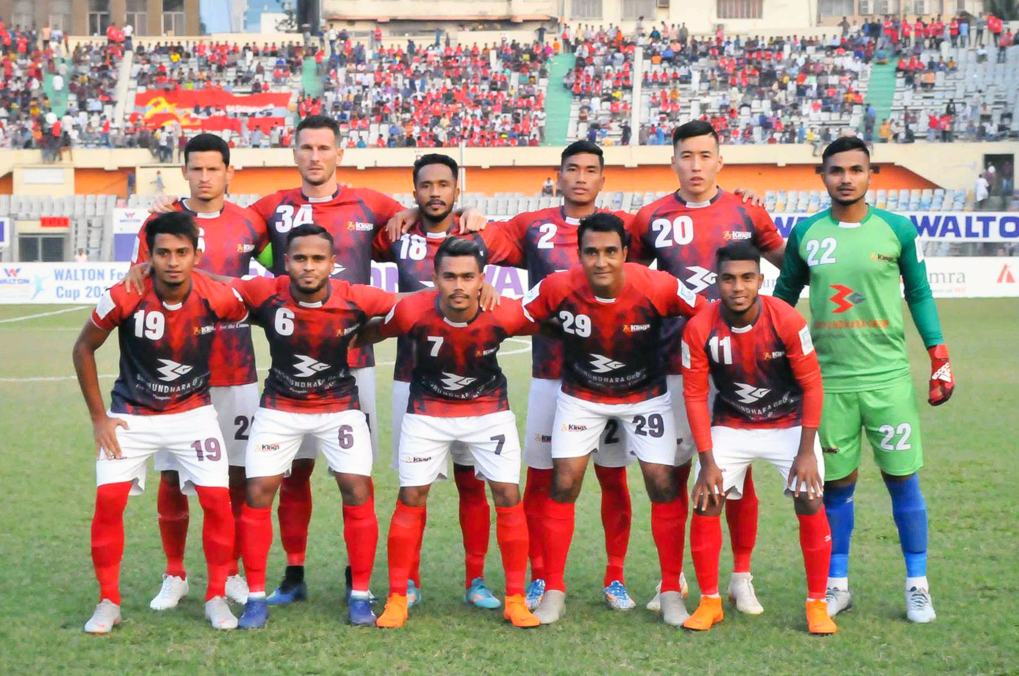 Bashundhara Kings Team Photo before facing Dhaka Abahani in the Federation Cup 2018 final.